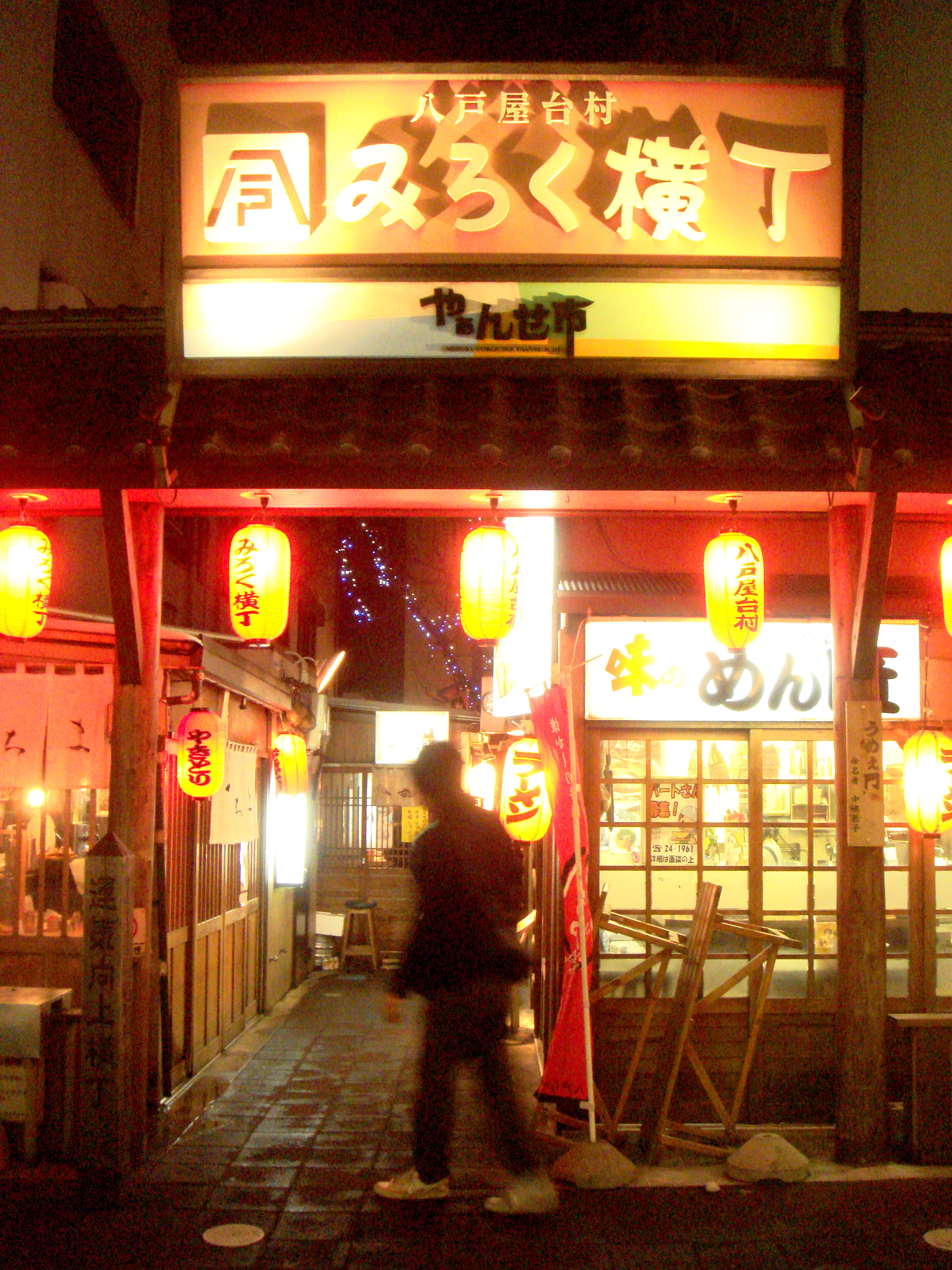 Mirokuyokocho is gathering Japanese style pub spot in downtown of Hachinohe city in Aomori,Japan.